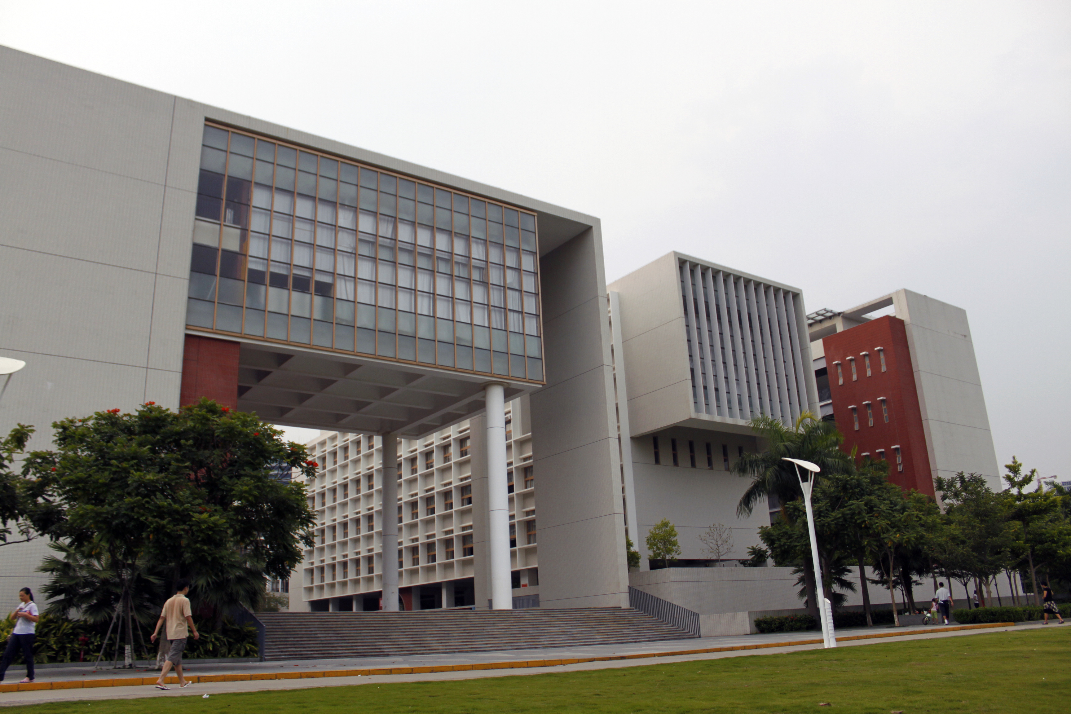 Shenzhen University: Complex of Humanities 中文（中国大陆）: 深大文科樓